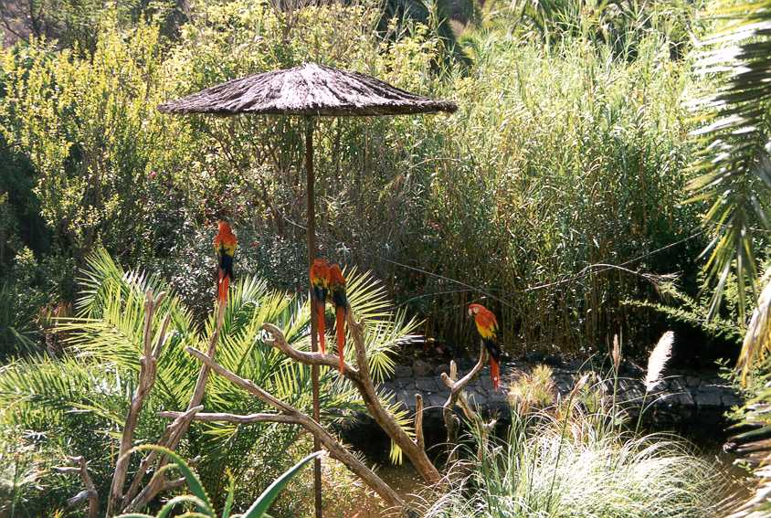 Palmitos Park, Gran Canaria